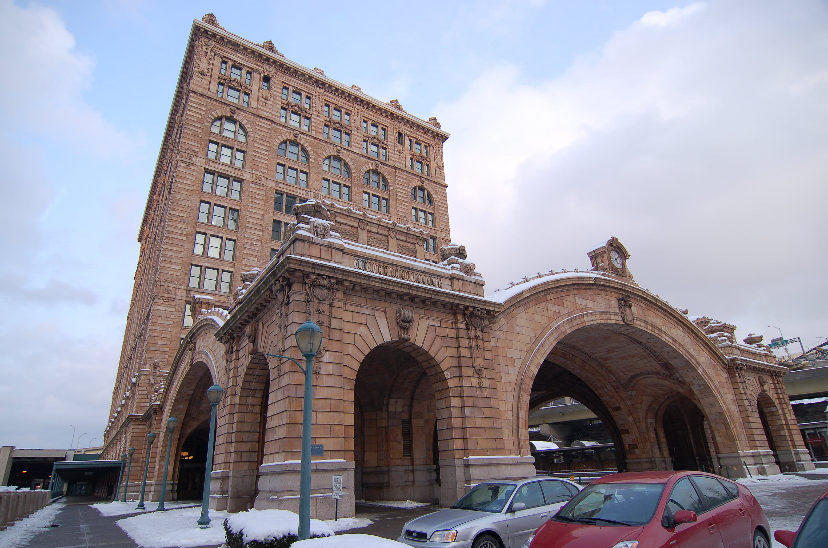 A photograph of a Pittsburgh's historic Union Station.